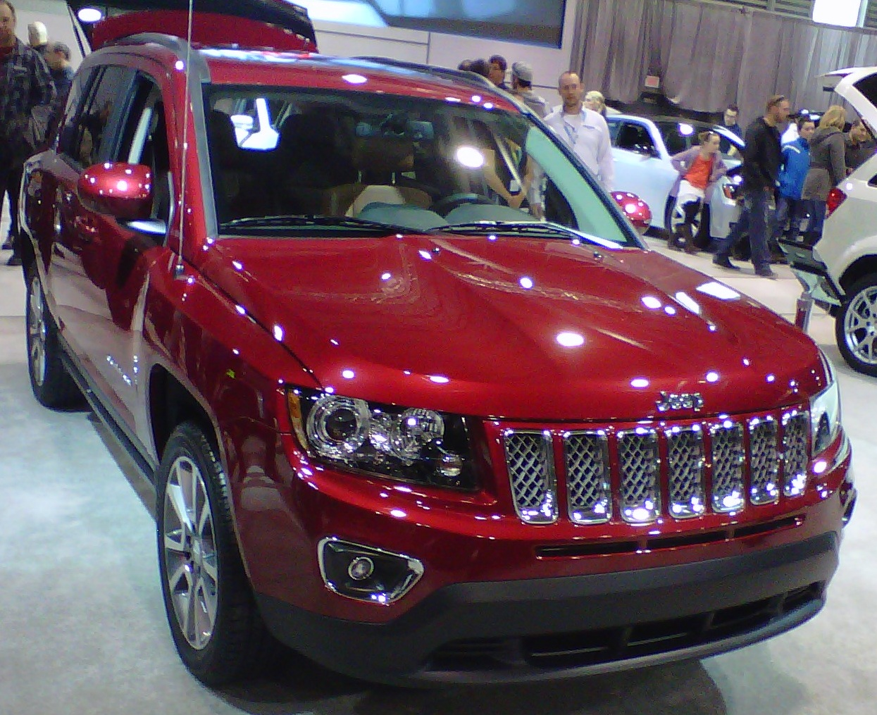 2014 Jeep Compass photographed in Quebec City, Quebec, Canada at the 2013 Quebec City Auto Show.